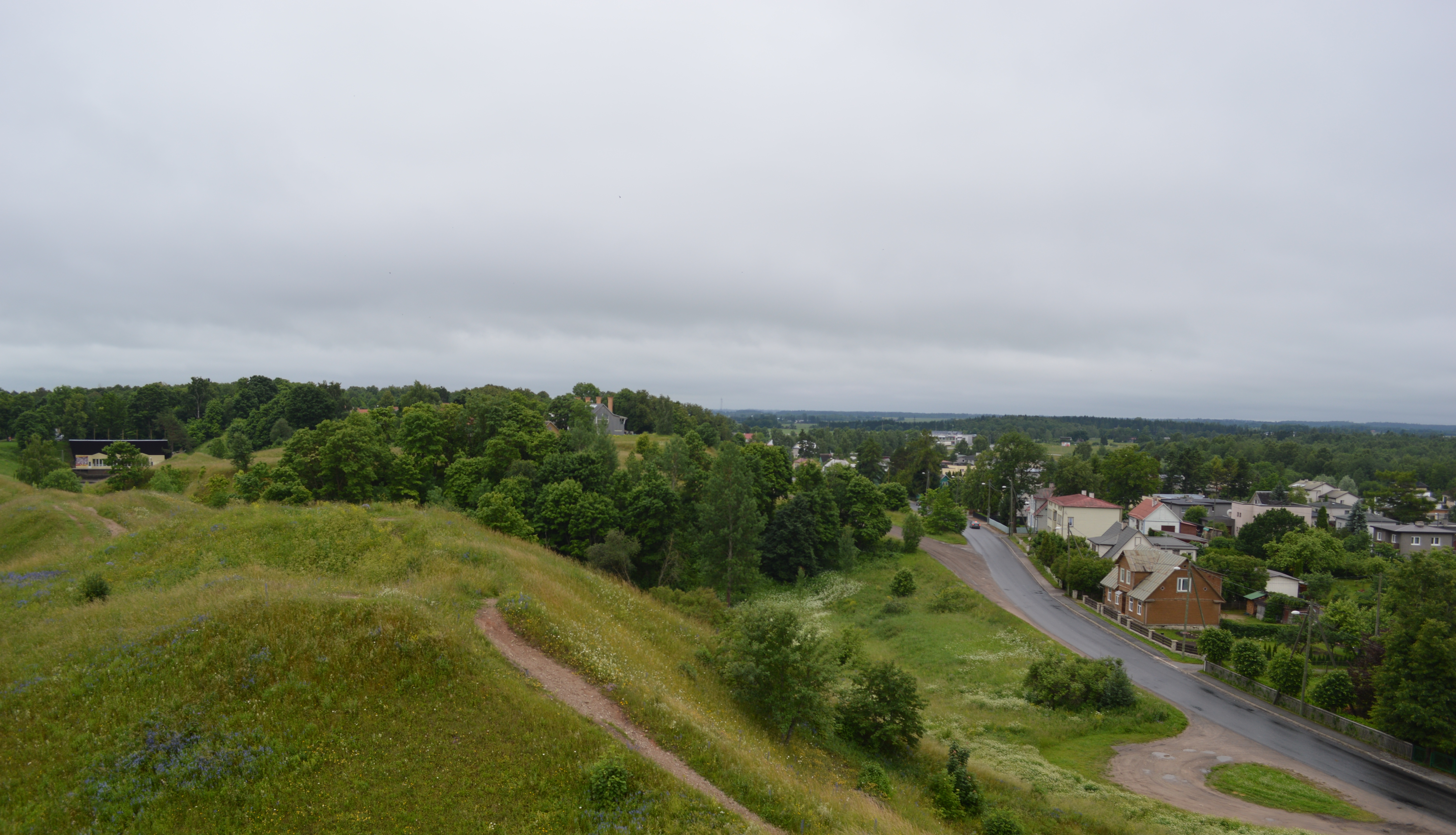 View from Rakvere castle